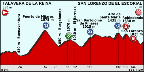 Profile of the 8th stage: Vuelta a España 2011